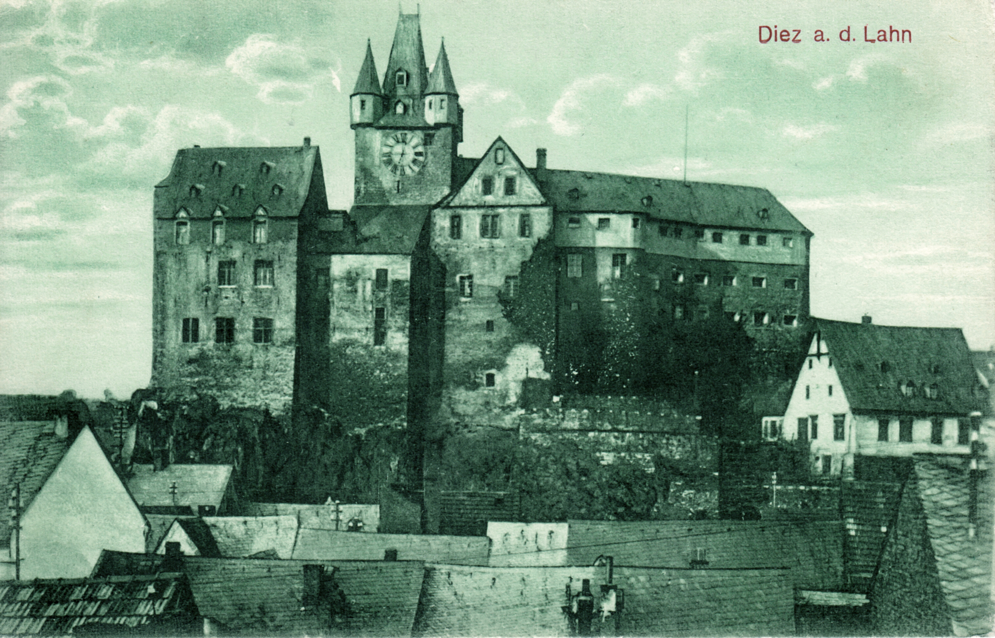 Château of the counts of Nassau-Diez in 1914, used as prison at this time